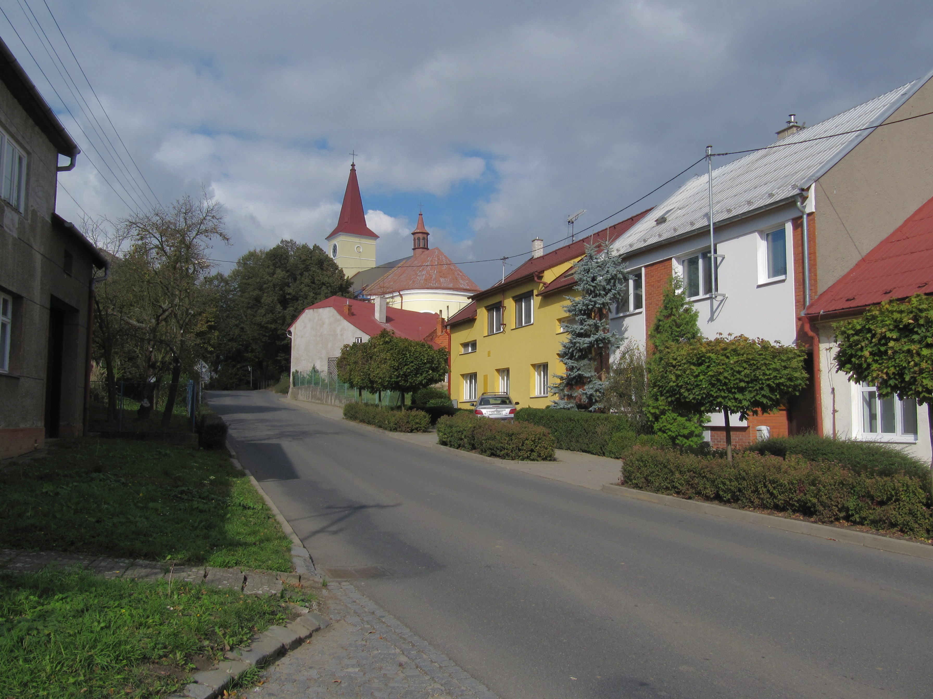 Mysločovice in Zlín District, Czech Republic. Center of the village with the Church of the Holy Trinity.